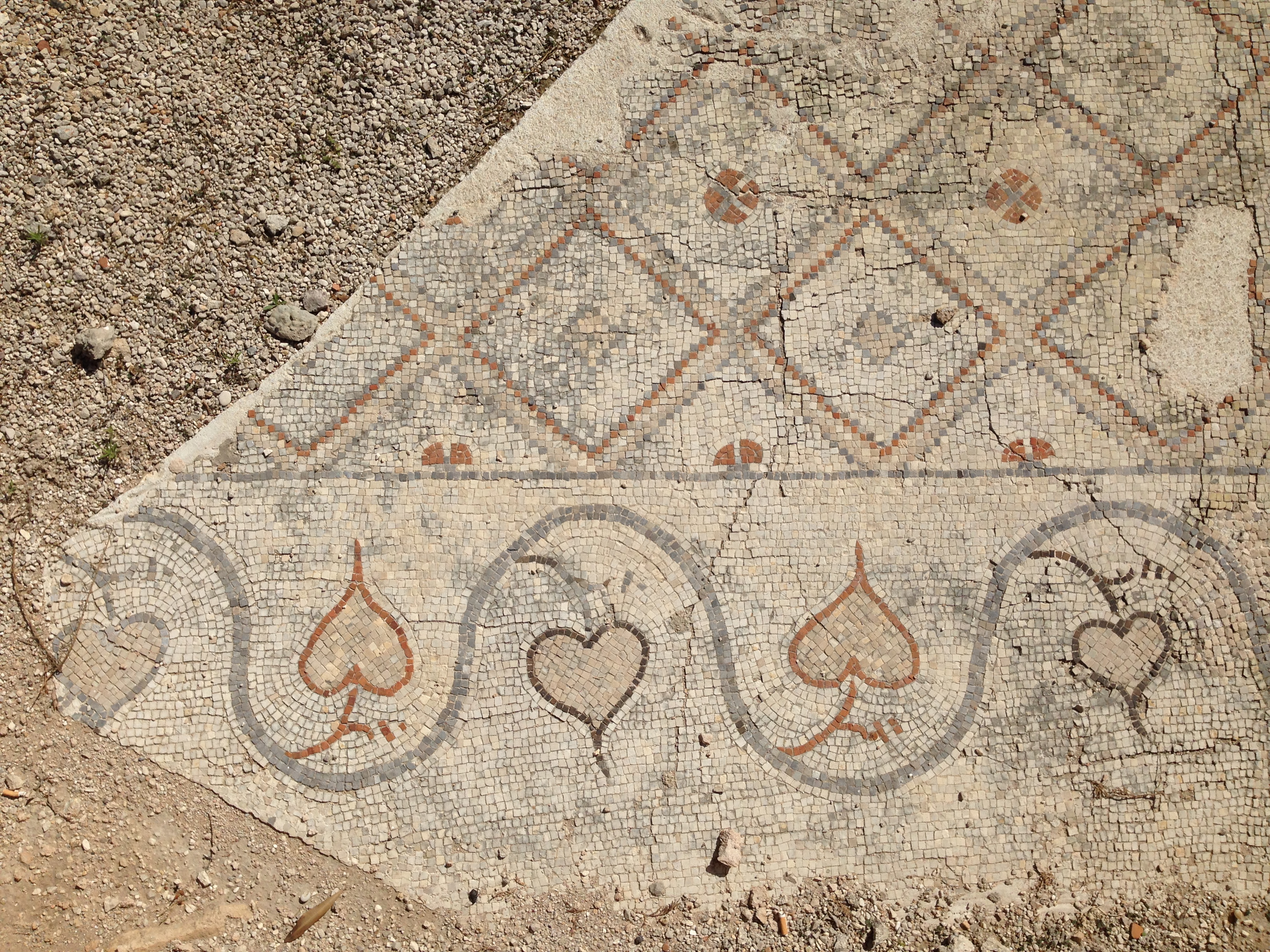 Ancient mosaic floor with heart-shaped grape leaf motifs in the Al Mina / City Site in Tyre/Sour, South Lebanon, probably from Byzantine Period